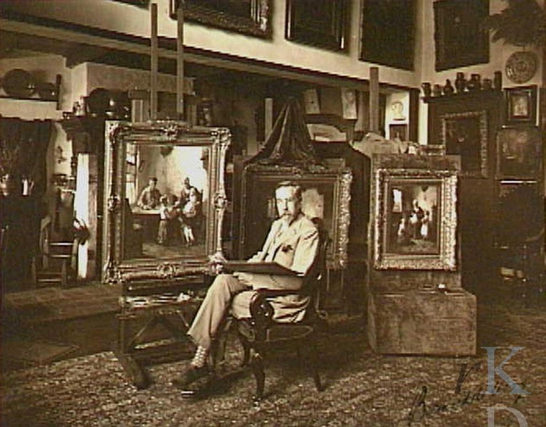 Bernard de Hoog